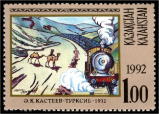 Turkestan-Siberia Railway (by A.K. Kasteev, 1932), a Kazakhstan stamp, 1, 1992